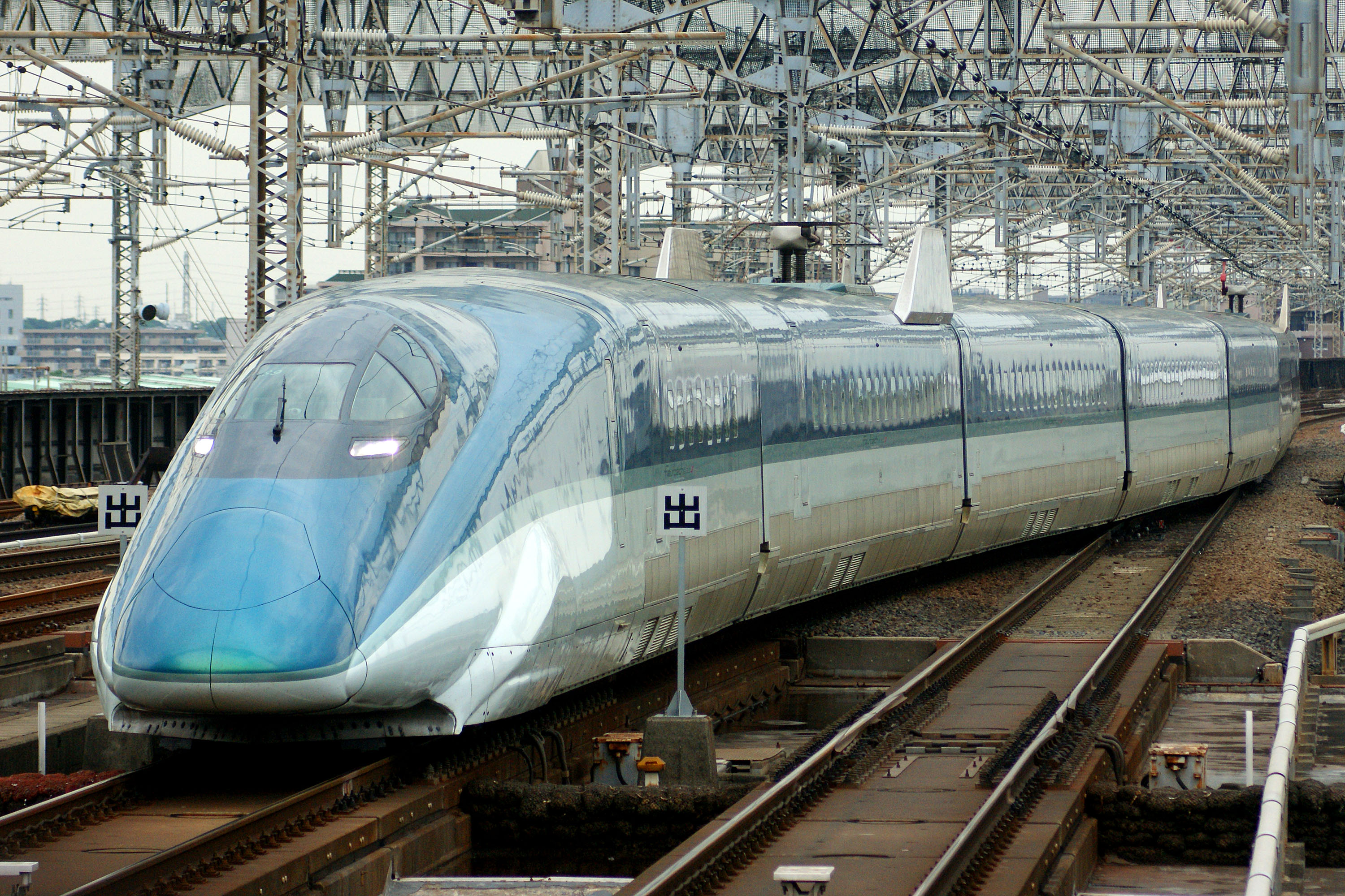 The JR East Class E954 experimental "Fastech 360S" shinkansen set approaching Omiya Station with the "stream line" style cab end leading